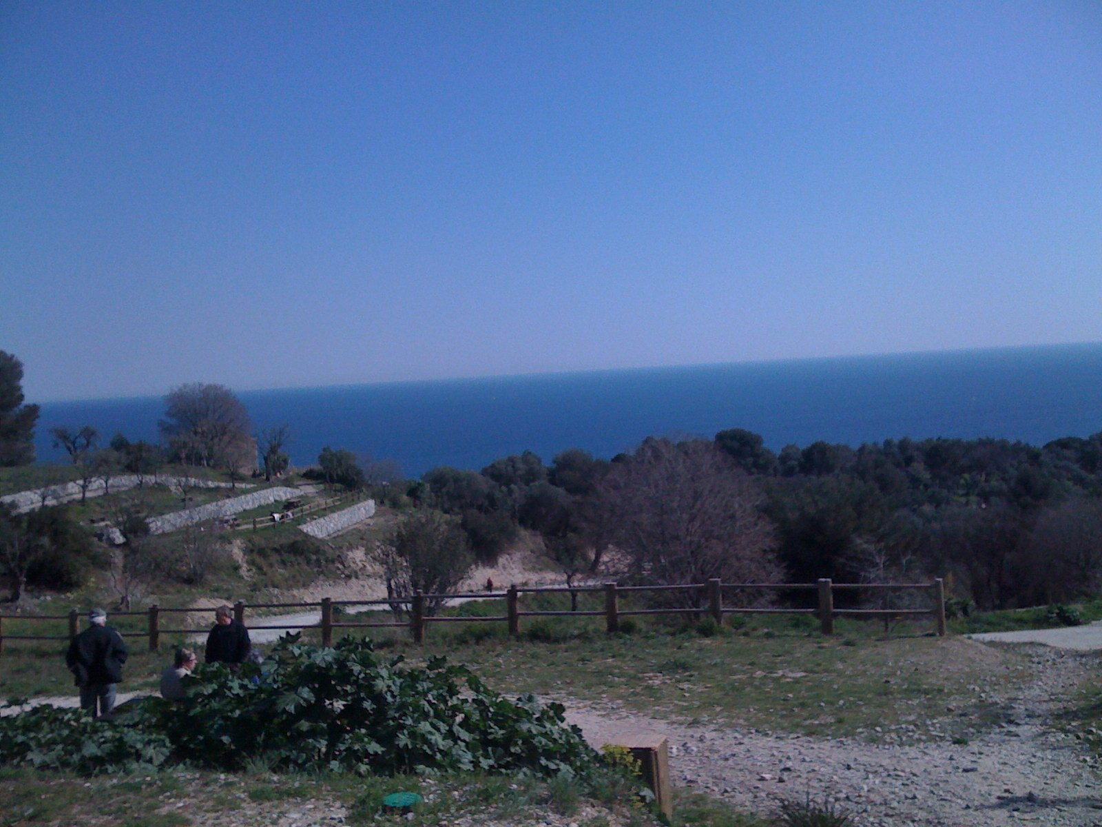 The Estienne-d'Orves park, in Nice, France.